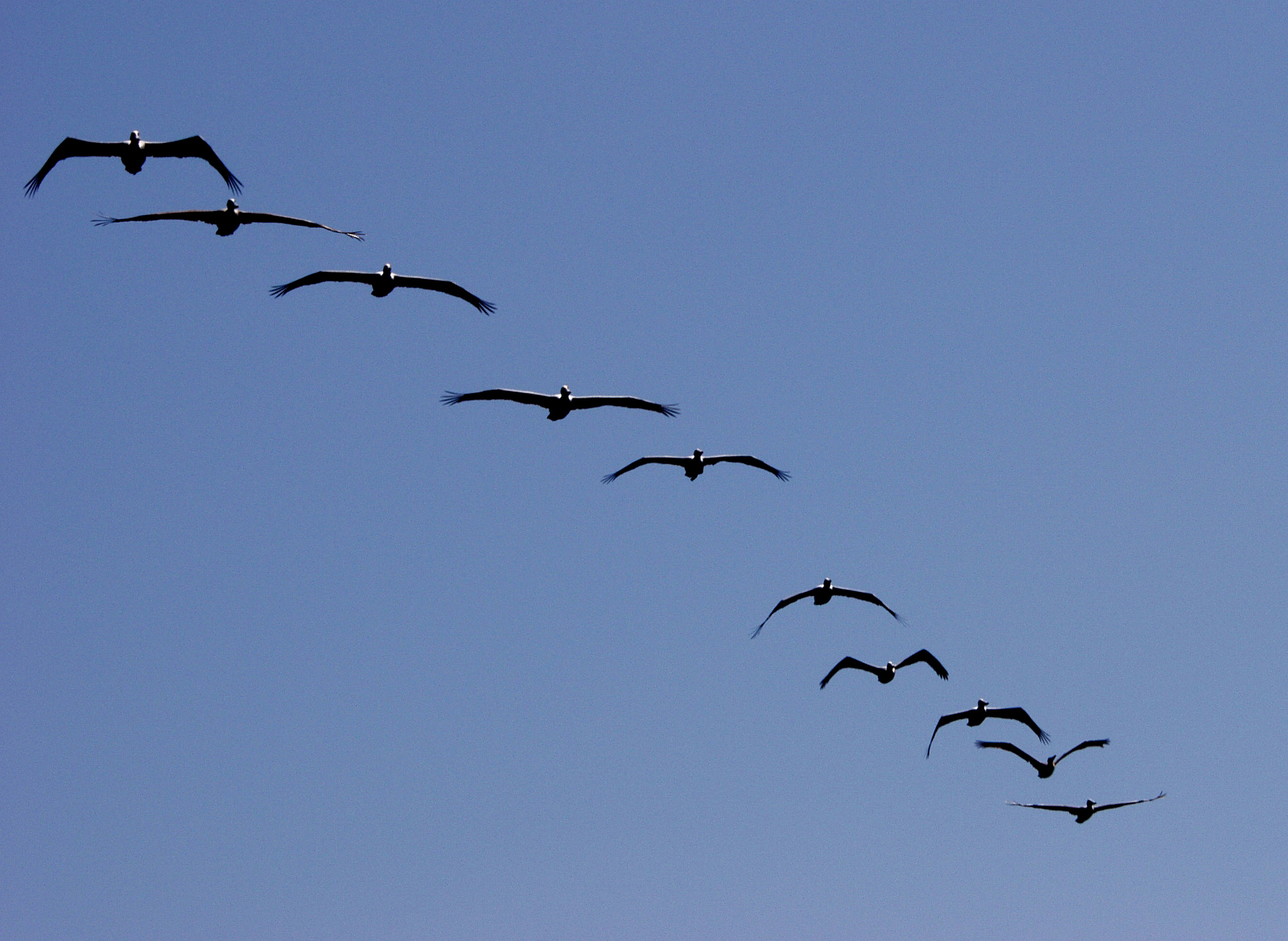 Brown Pelicans in Ensenada, Mexico